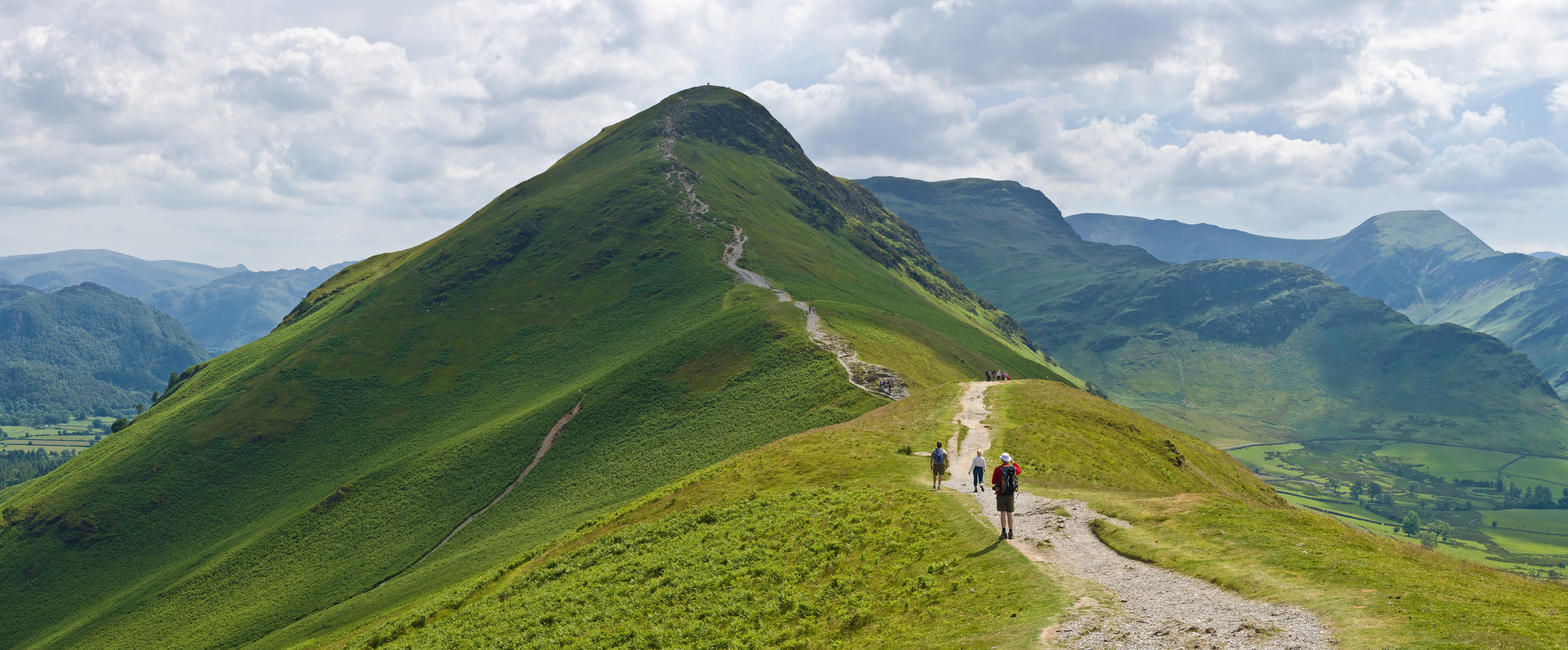 A view of the northern ascent of Catbells (facing south) in the Lake District near Keswick, Cumbria.